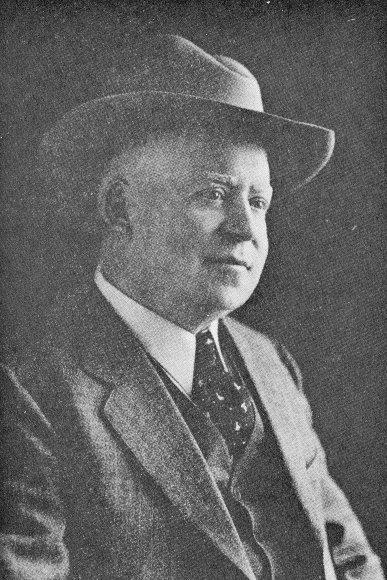 Ed McGivern